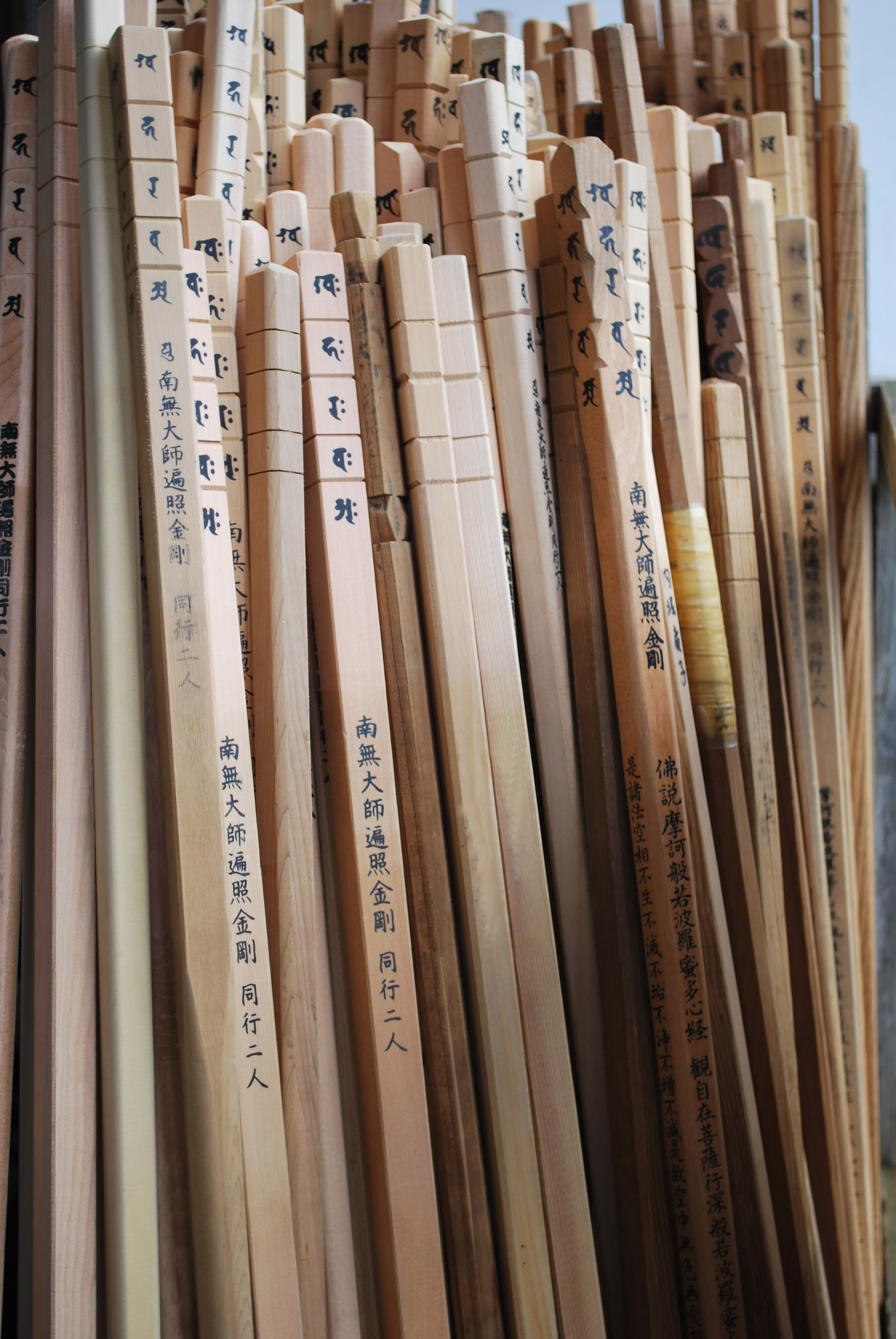 The dedication canes in Ōkubo-ji